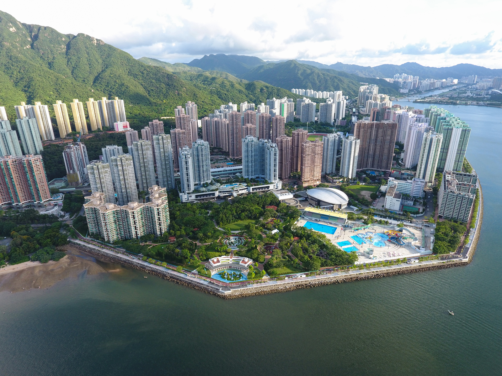 Ma On Shan Town Centre Aerial view